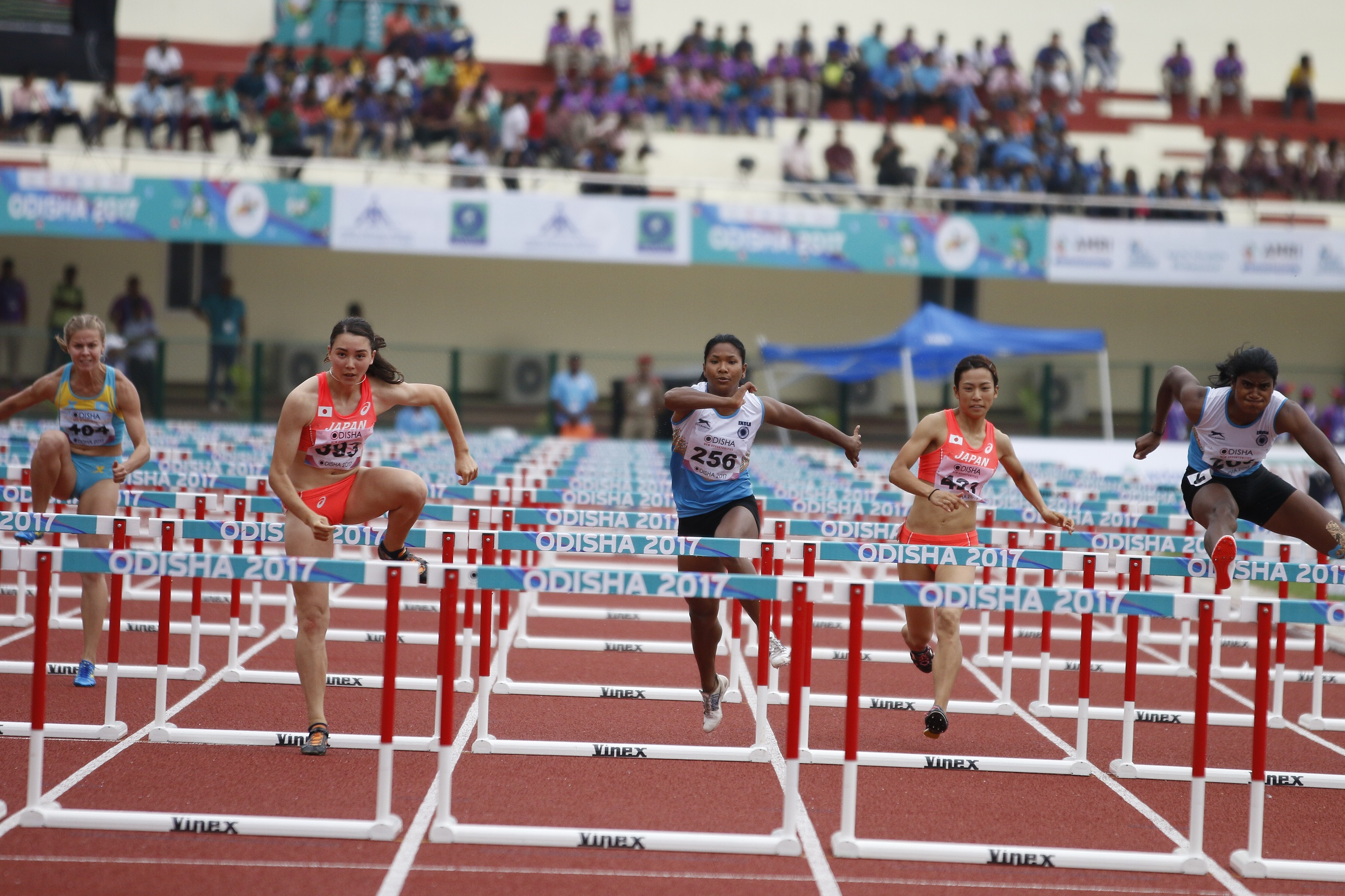 picture taken at the 2017 Asian Athletics Championships in July 2017 in Bhubaneshwar. L to R ???, Meg Hemphill, Swapna Barman, Eri Utsunomiya, and ?????